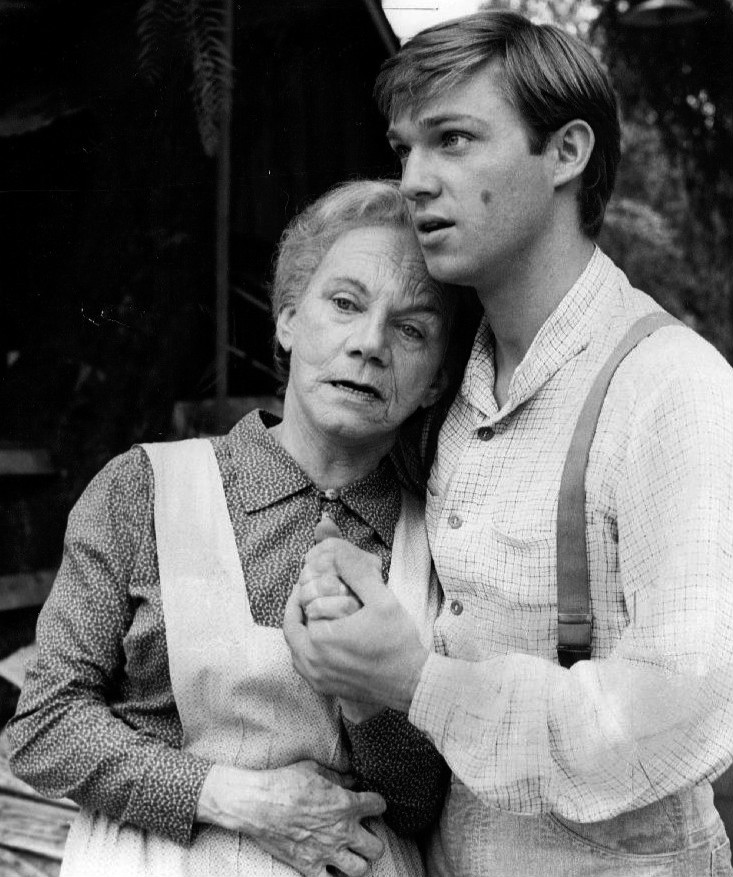 Publicity photo of Richard Thomas and Ellen Corby from the television program The Waltons.